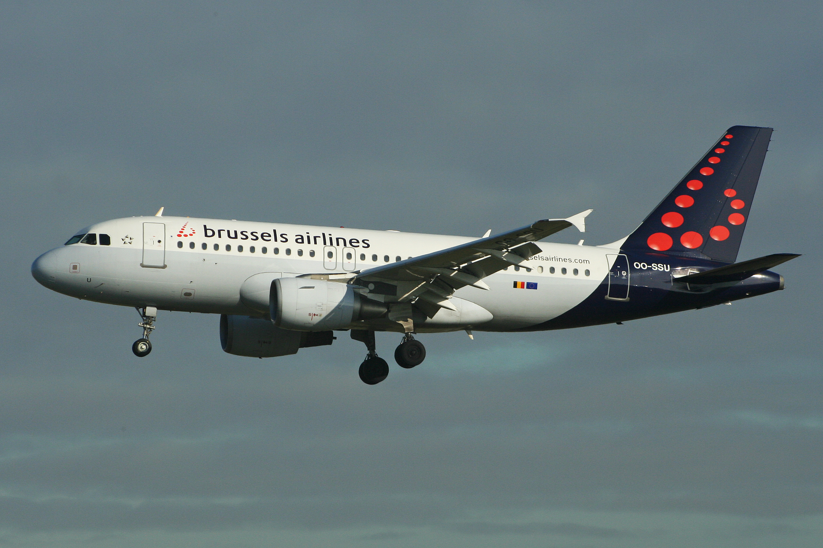 msn 2230. Arriving on flight SN2093/2AH from Brussels. London Heathrow. 26-2-2012